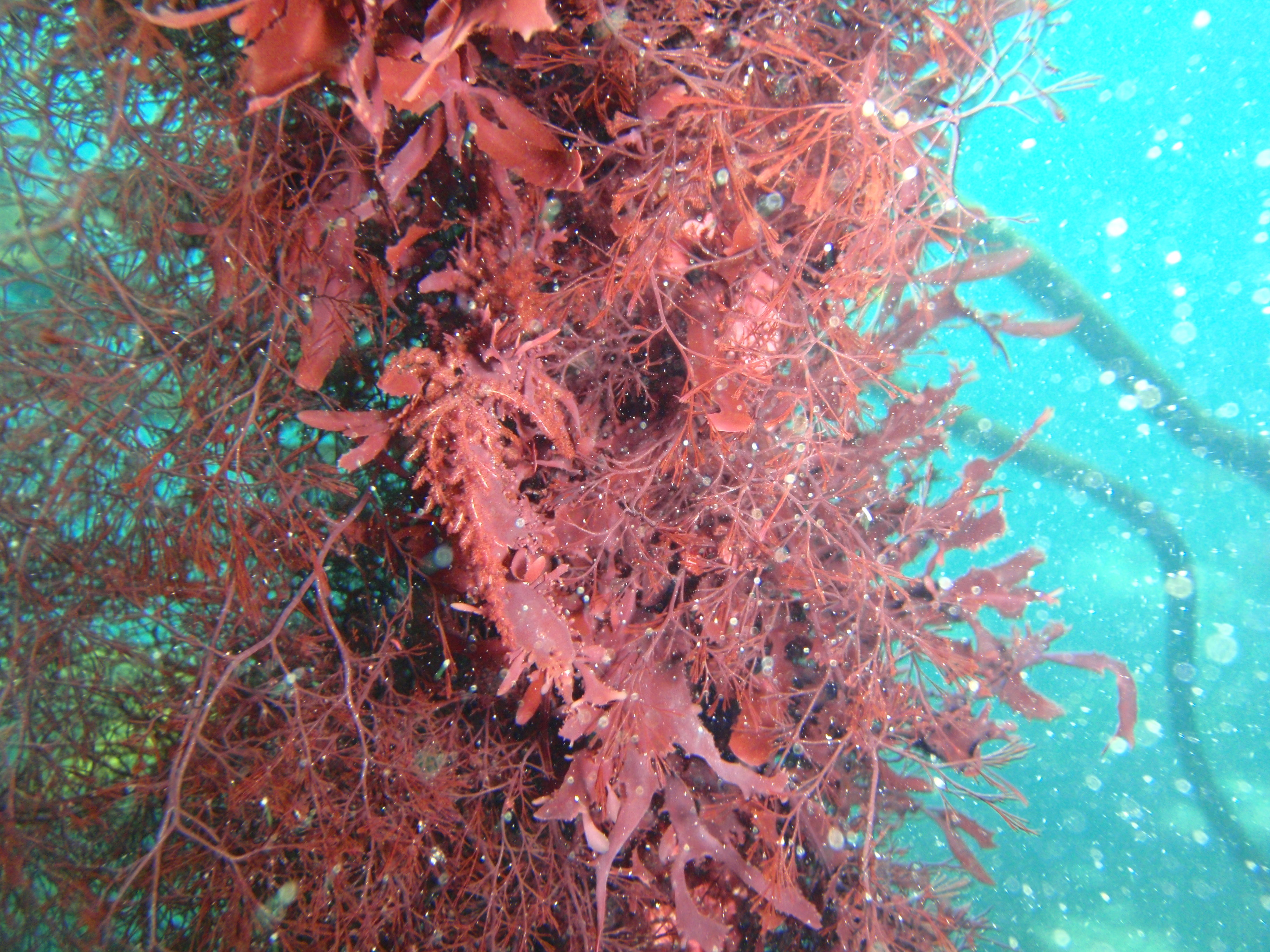 Heavy epiphyte growth on a kelp stipe, Cape peninsula.